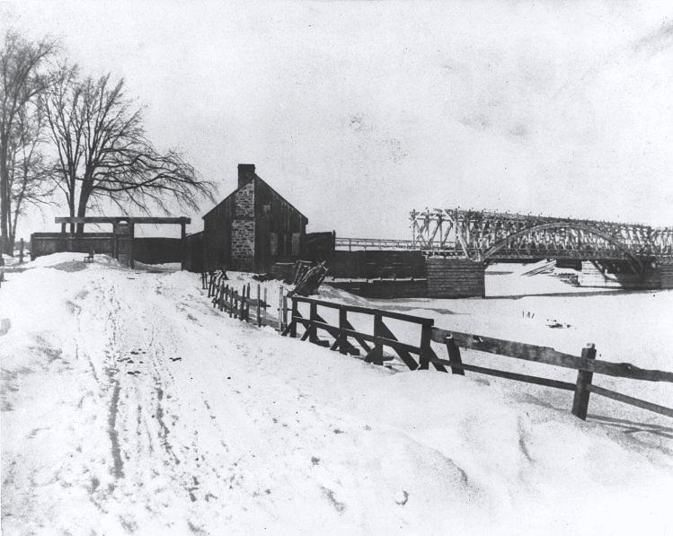 Photograph, Bridge at L'Abord à Plouffe, near Montreal, QC, 1859, Alexander Henderson, Silver salts on paper mounted on paper - Salted paper process - 20 x 25 cm